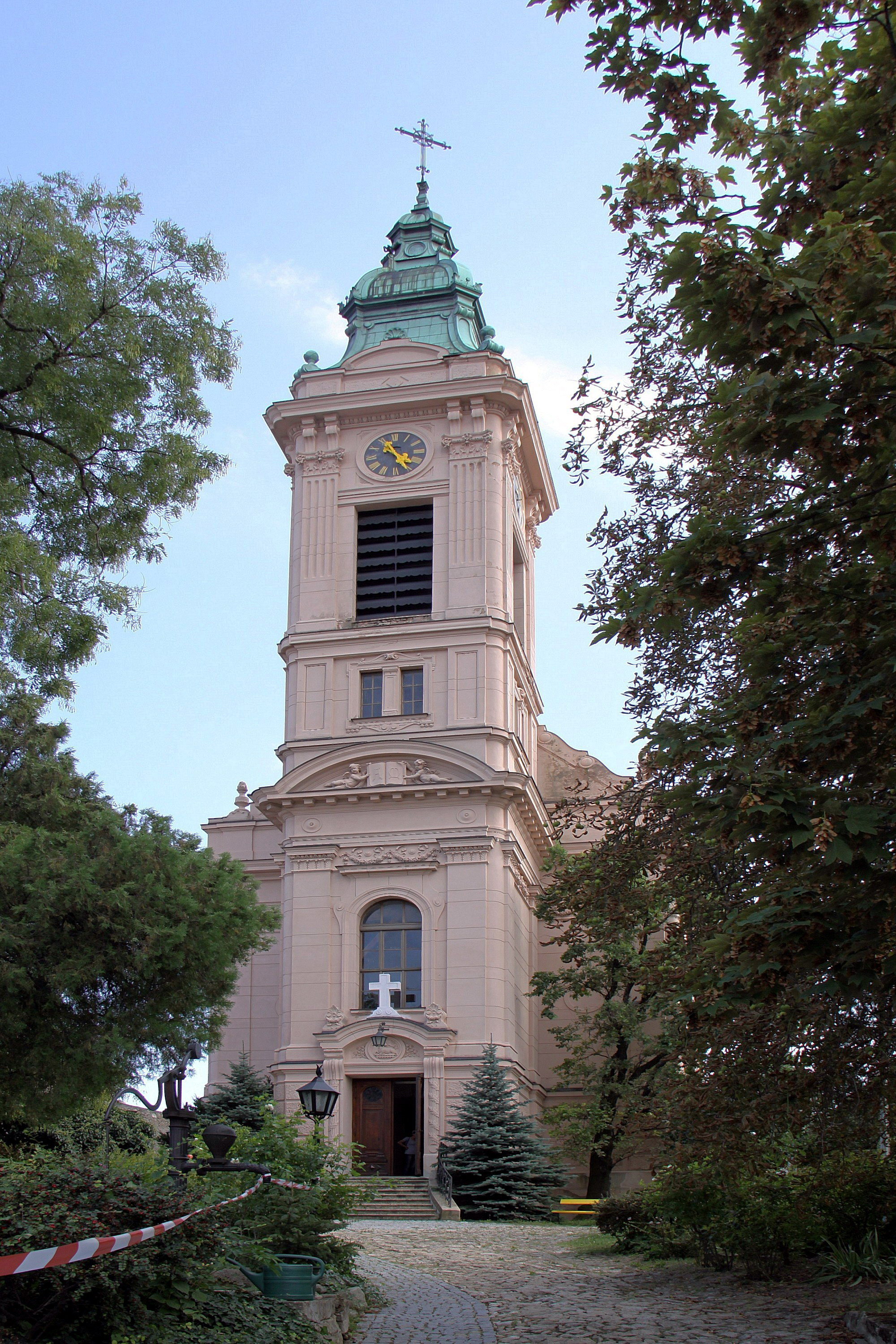 Church (ev.), Conradplatz 4 in Rust (Burgenland) in Burgenland (Austria)